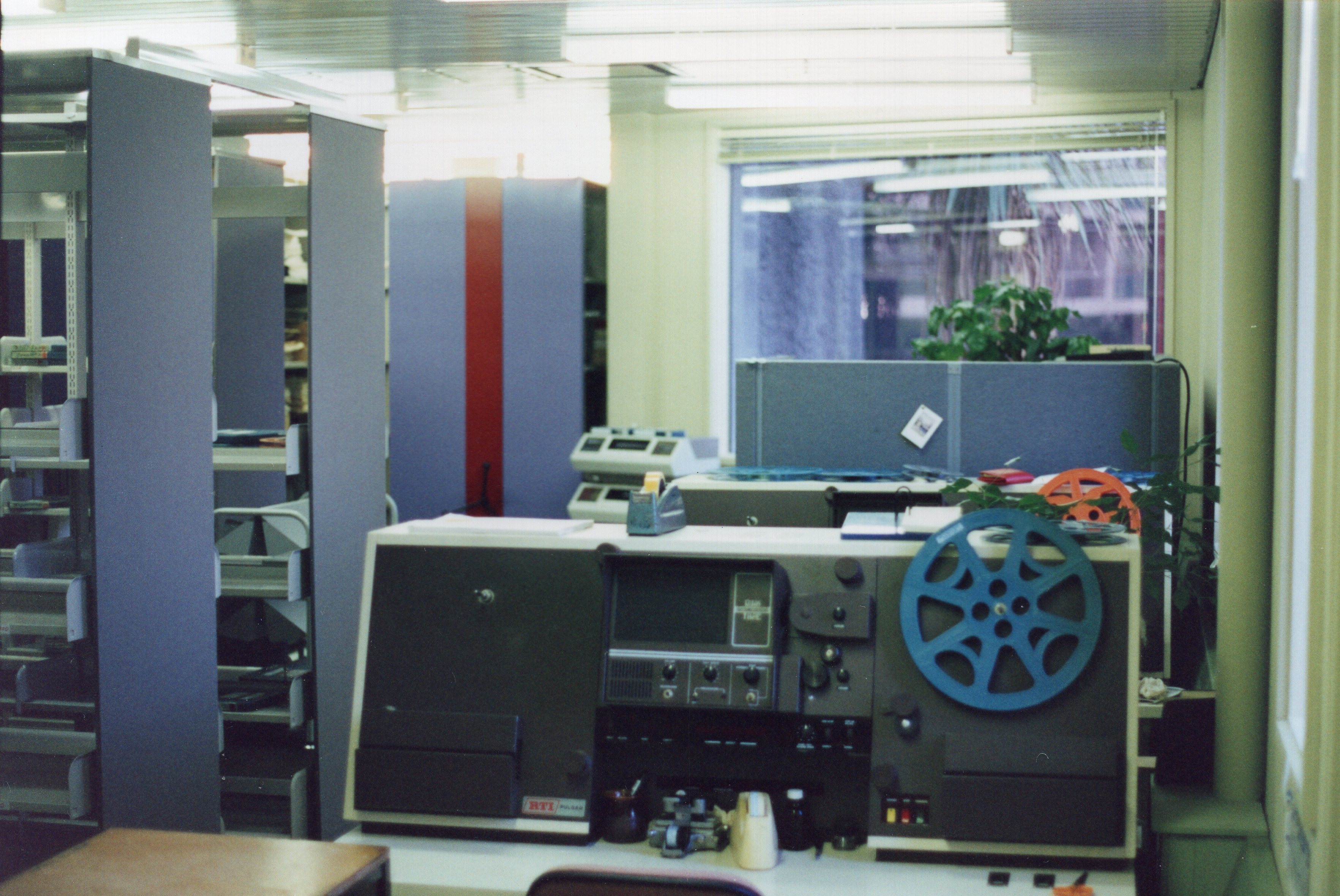 16 mm film equipment in School Library Service work area. National Library in Molesworth Street.